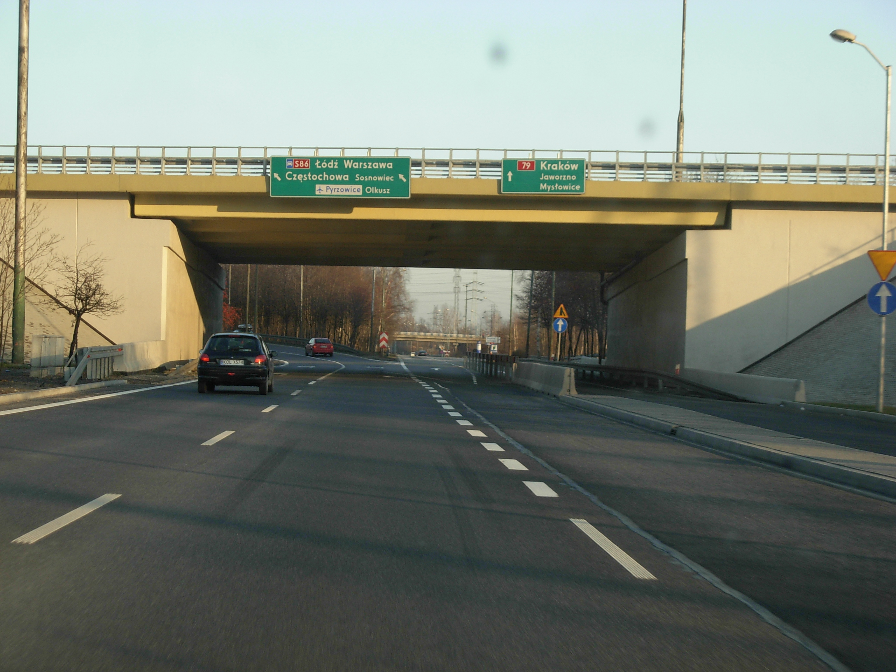 Photo by myself, Dec'06.